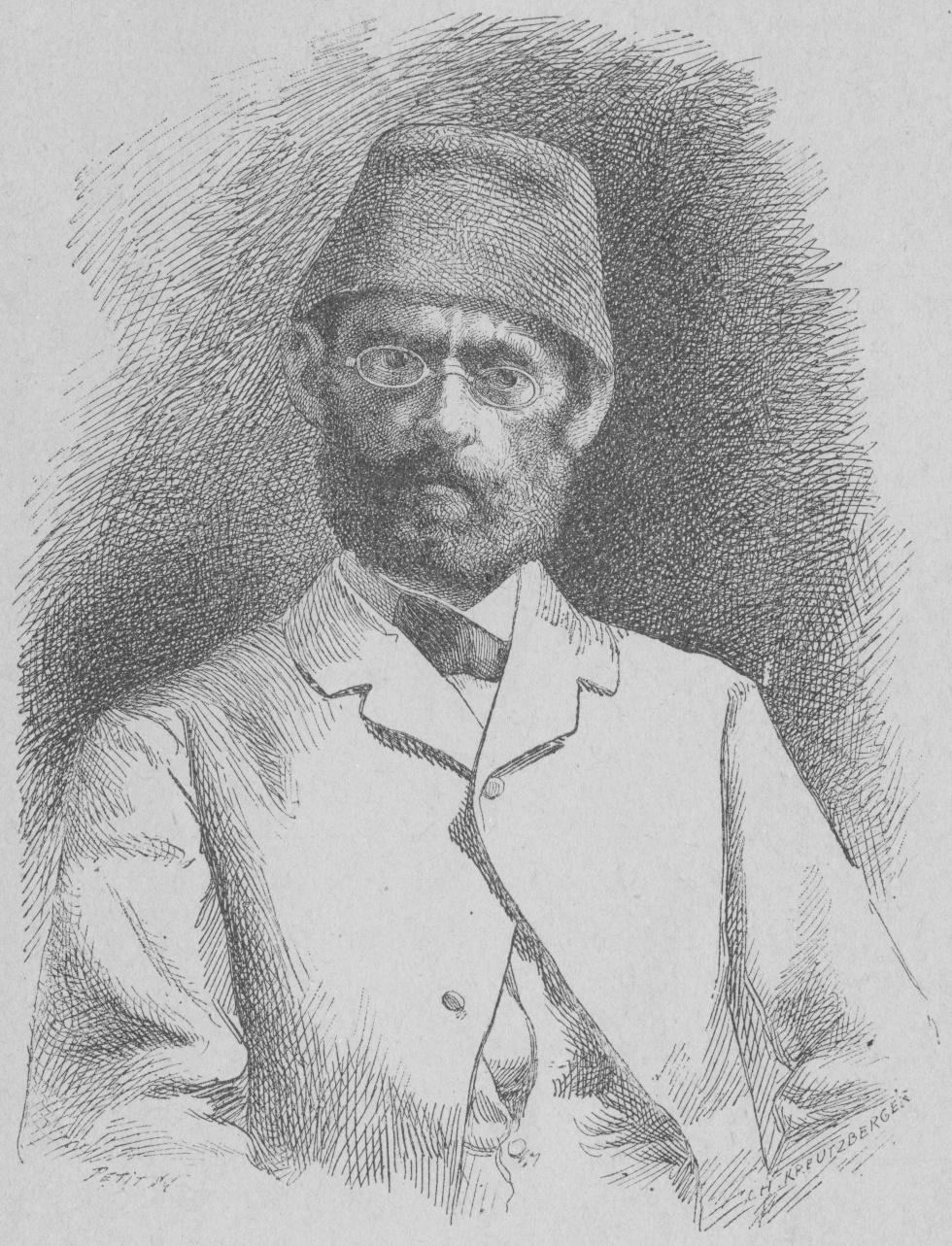 Emin Pascha, from the book "Stanleys expedition till Emin Paschas undsättning" by Alphonse-Jules Wauters Translator: Oscar Heinrich Dumrath (1890)